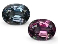 this Garnet is in a personal collection it is a .80cts blue to pink colour change garnet from Madagascar